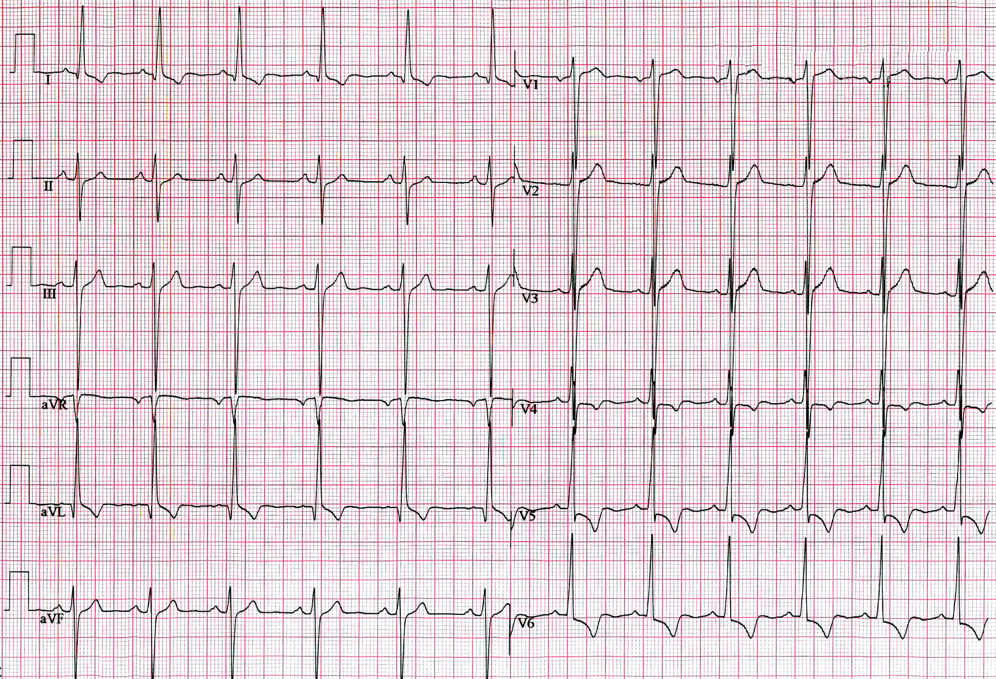 ECG diagram showing Left Ventricular Hypertrophy